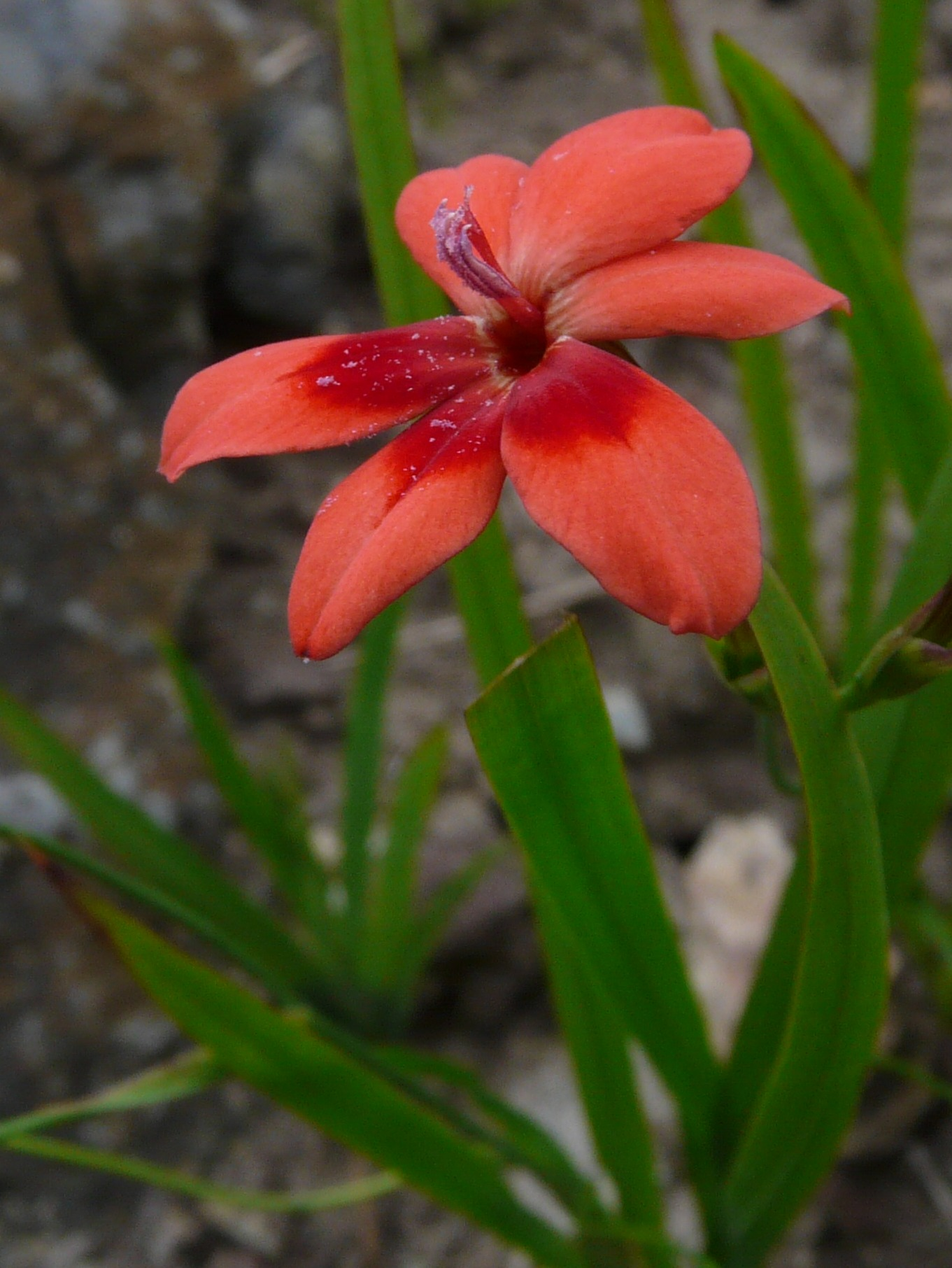 Anomatheca laxa (Botanical Gardens Utrecht)